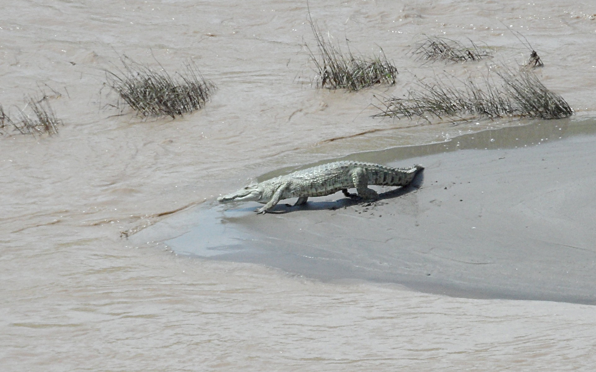 A crocodile on the Takezé river